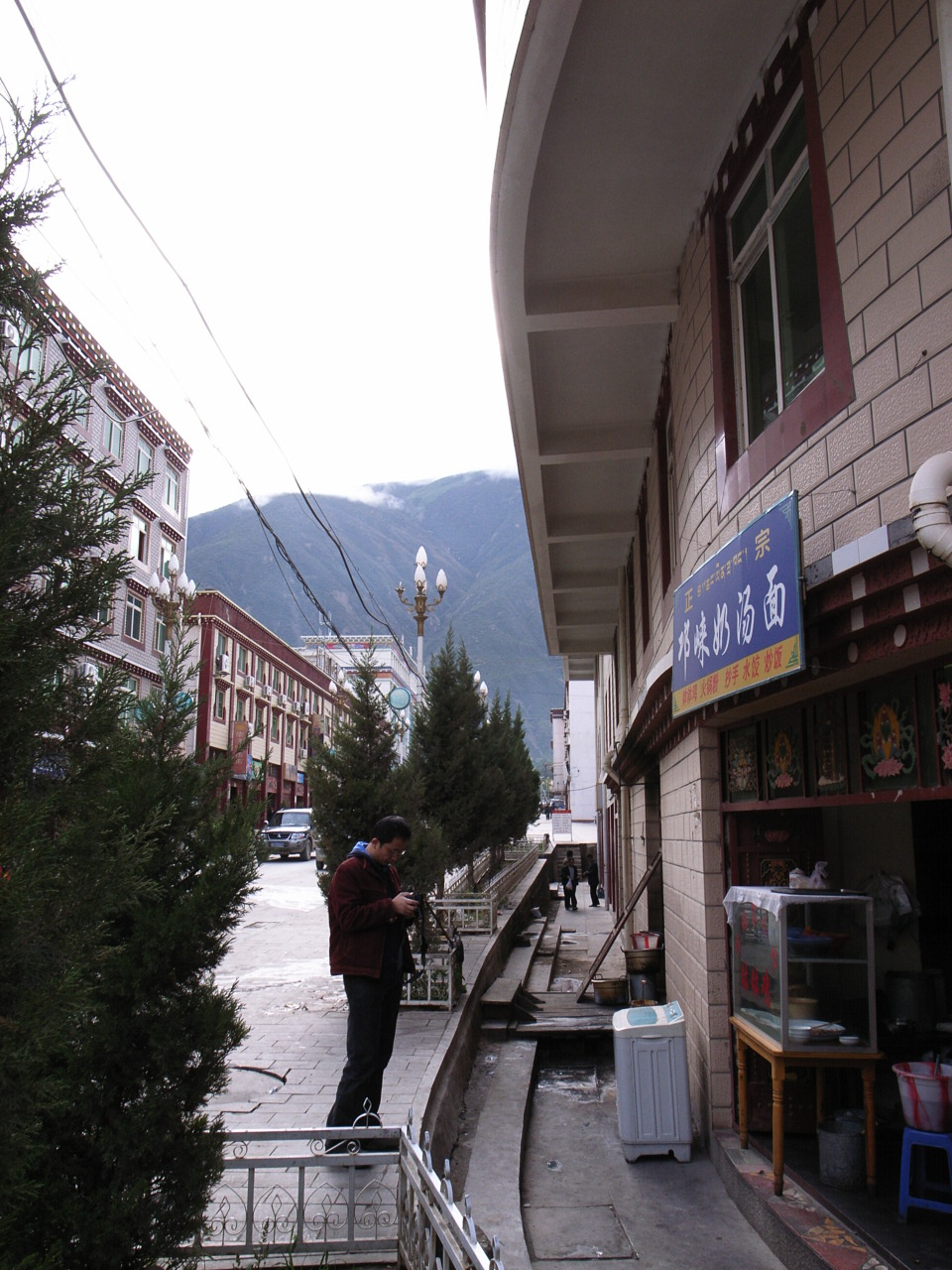 A bistro (breakfast noodle soupe (汤面) restaurant) in Batang, Garzê Tibetan Autonomous Prefecture, Sichuan, China }